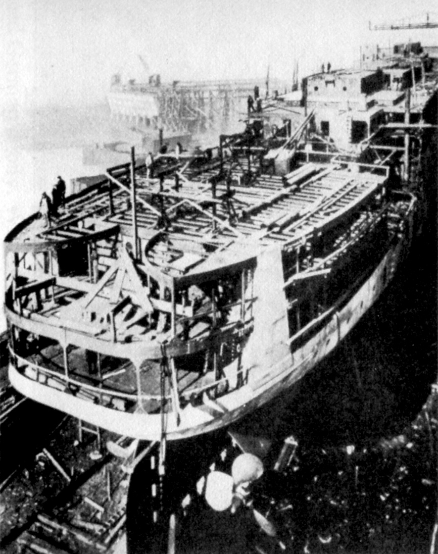 Orizaba under construction at William Cramp and sons shipyard in Philadelphia, Pennsylvania